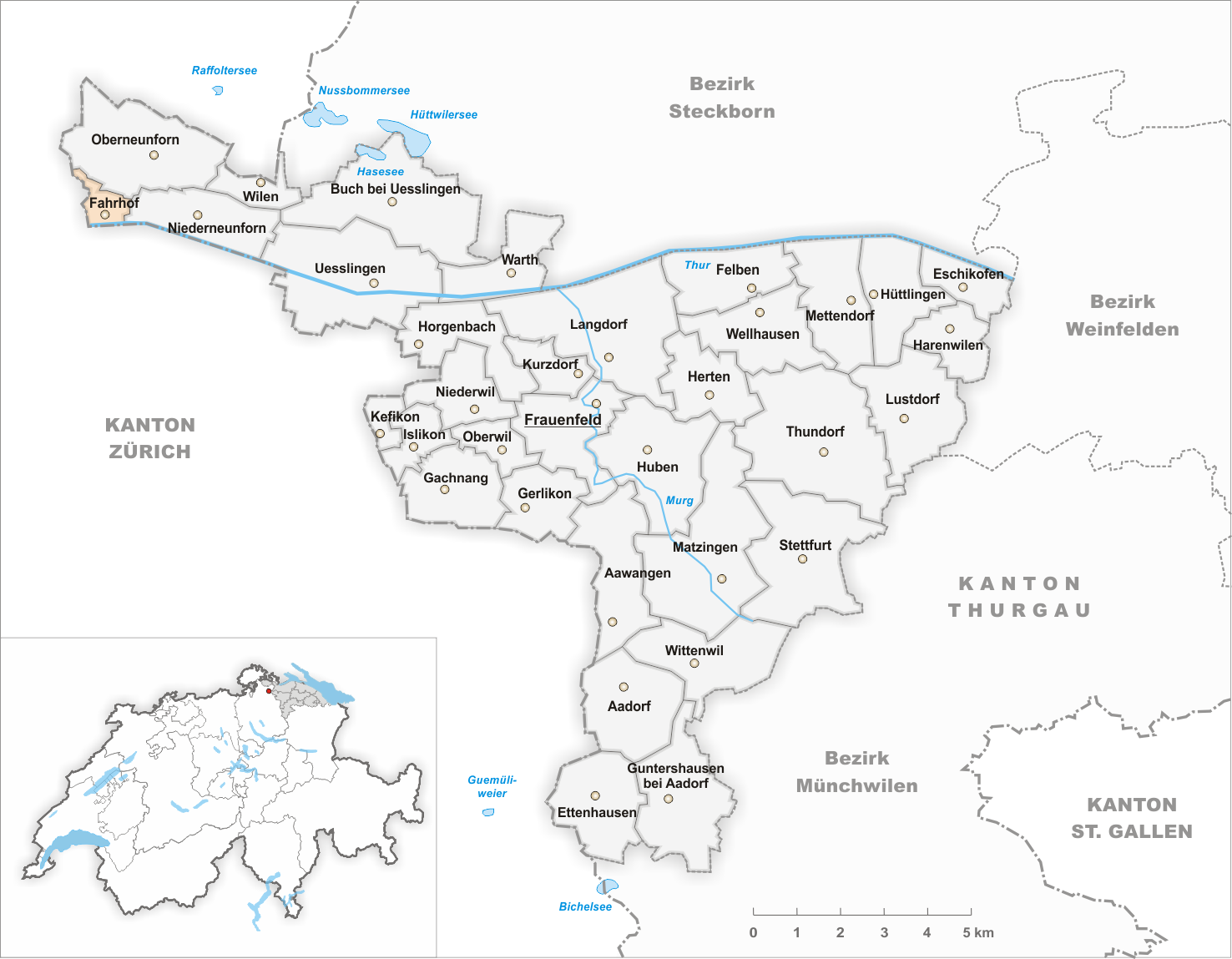 Municipality Fahrhof